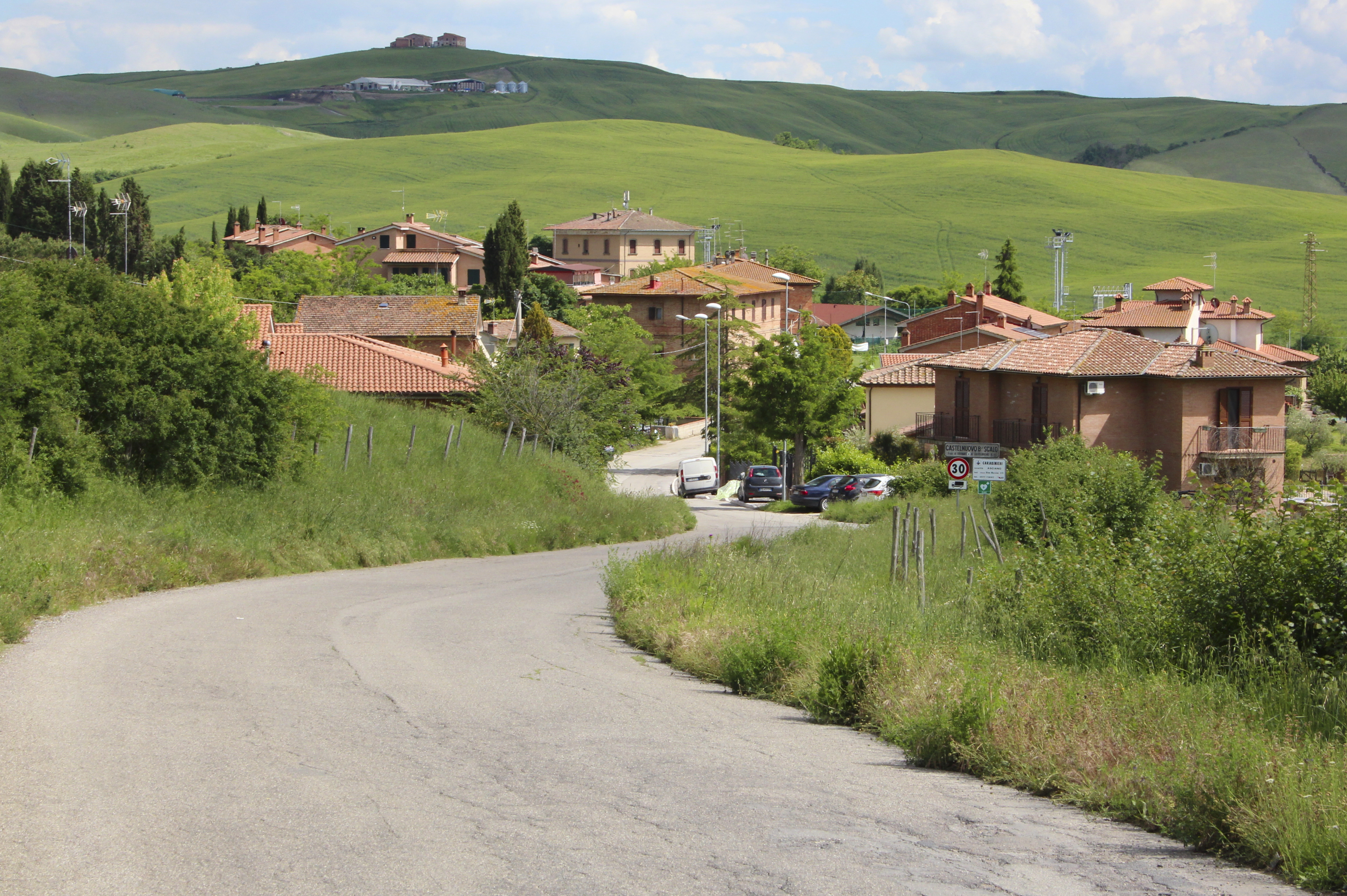 Castelnuovo Scalo, hamlet of Asciano and Castelnuovo Berardenga, Province of Siena, Tuscany, Italy